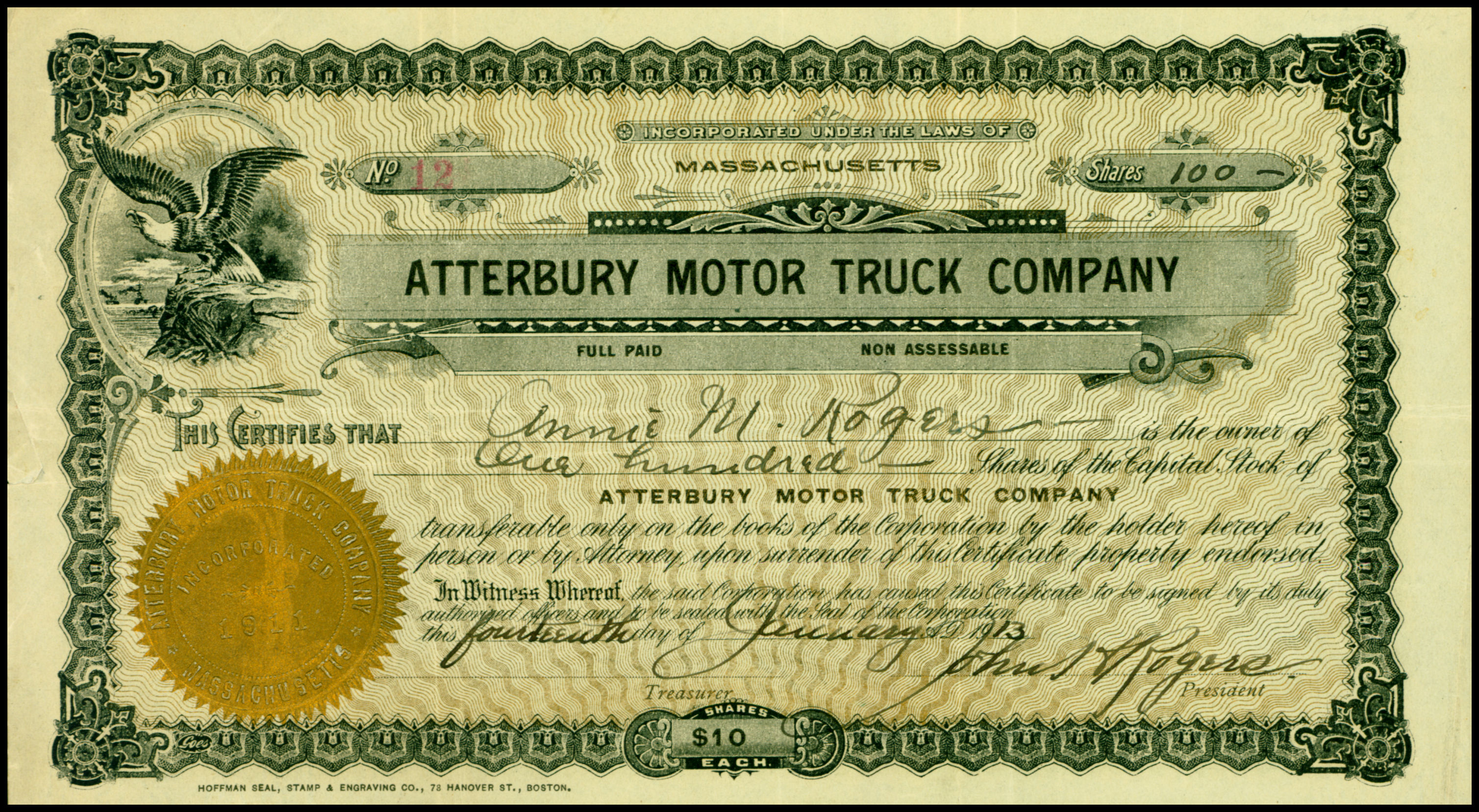 Share of the Atterbury Motor Truck Company, issued 14. January 1913